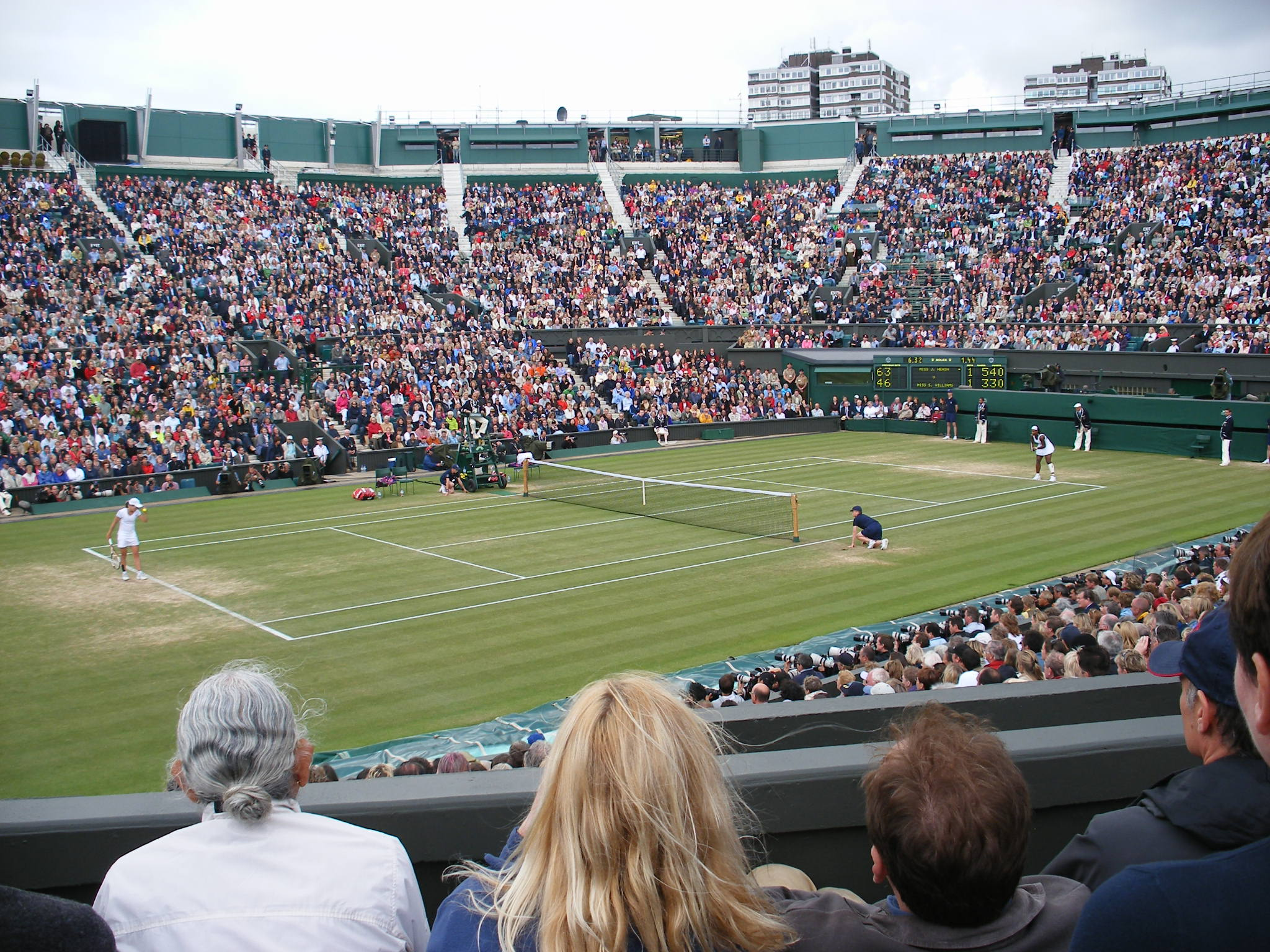 Wimbledon's Centre Court, showing its open roof in 2007. The roof was removed after the 2006 championships. A new roof will be built before the 2008 championships, and a retractable cover will be added before the 2009 championships. The match was between Justine Henin and Serena Williams; Henin won.